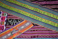 A small collection of tais weavings from East Timor